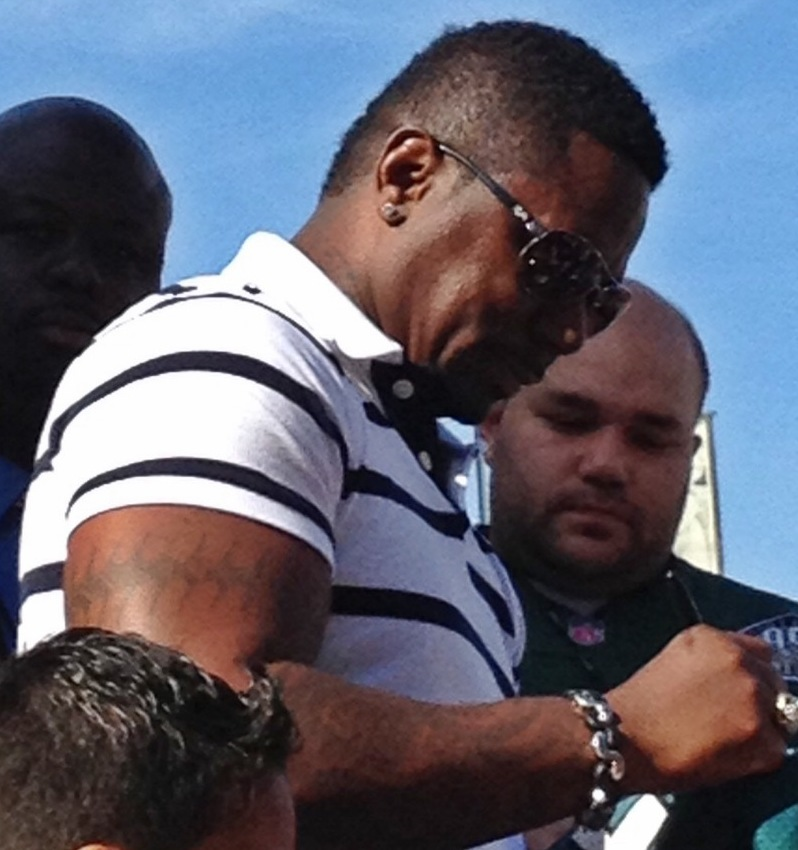 Photo of Ricky Watters signing at Lincoln Financial Field